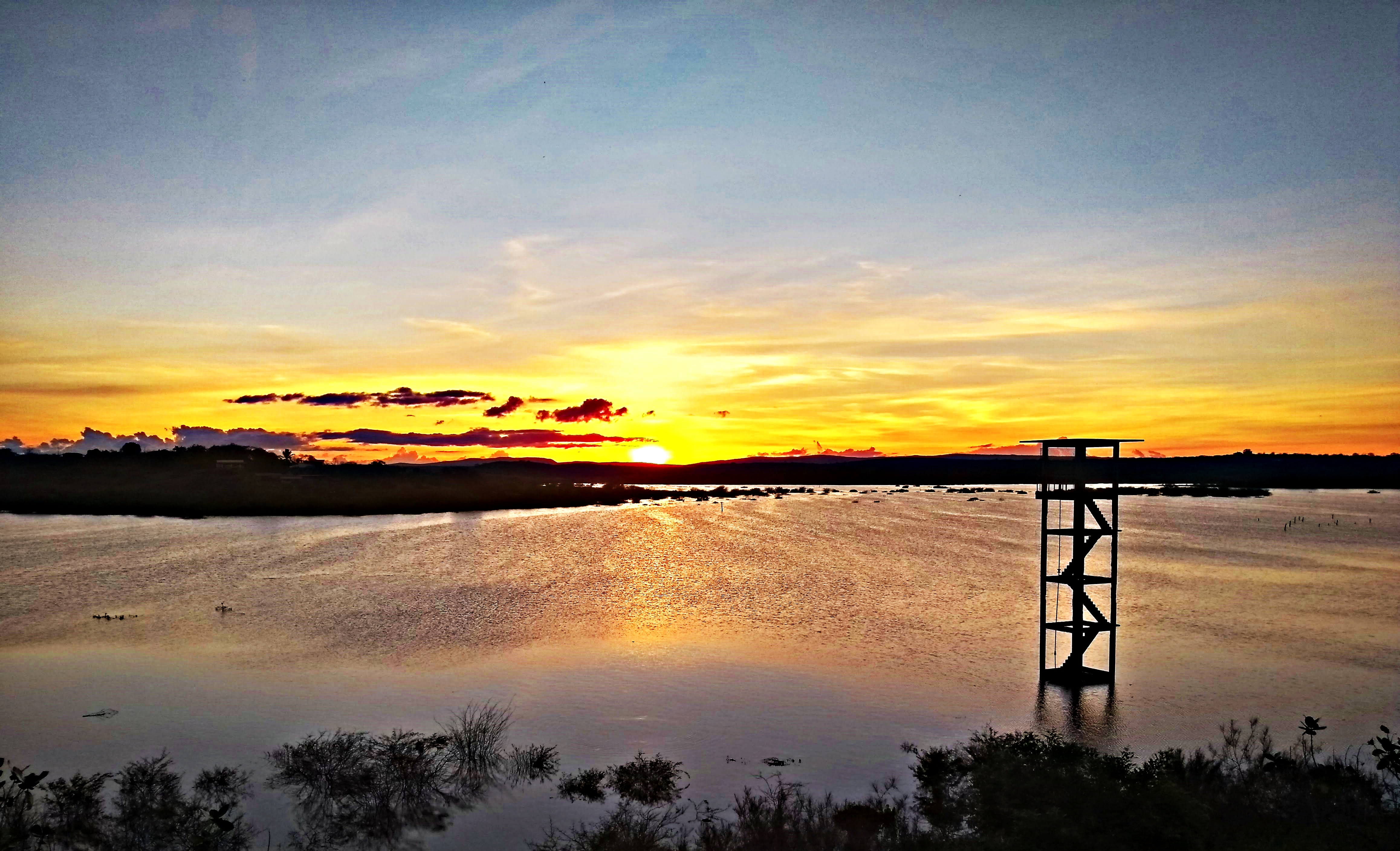 Campo Grande dam receiving water in April 2018 after seven years of drought.